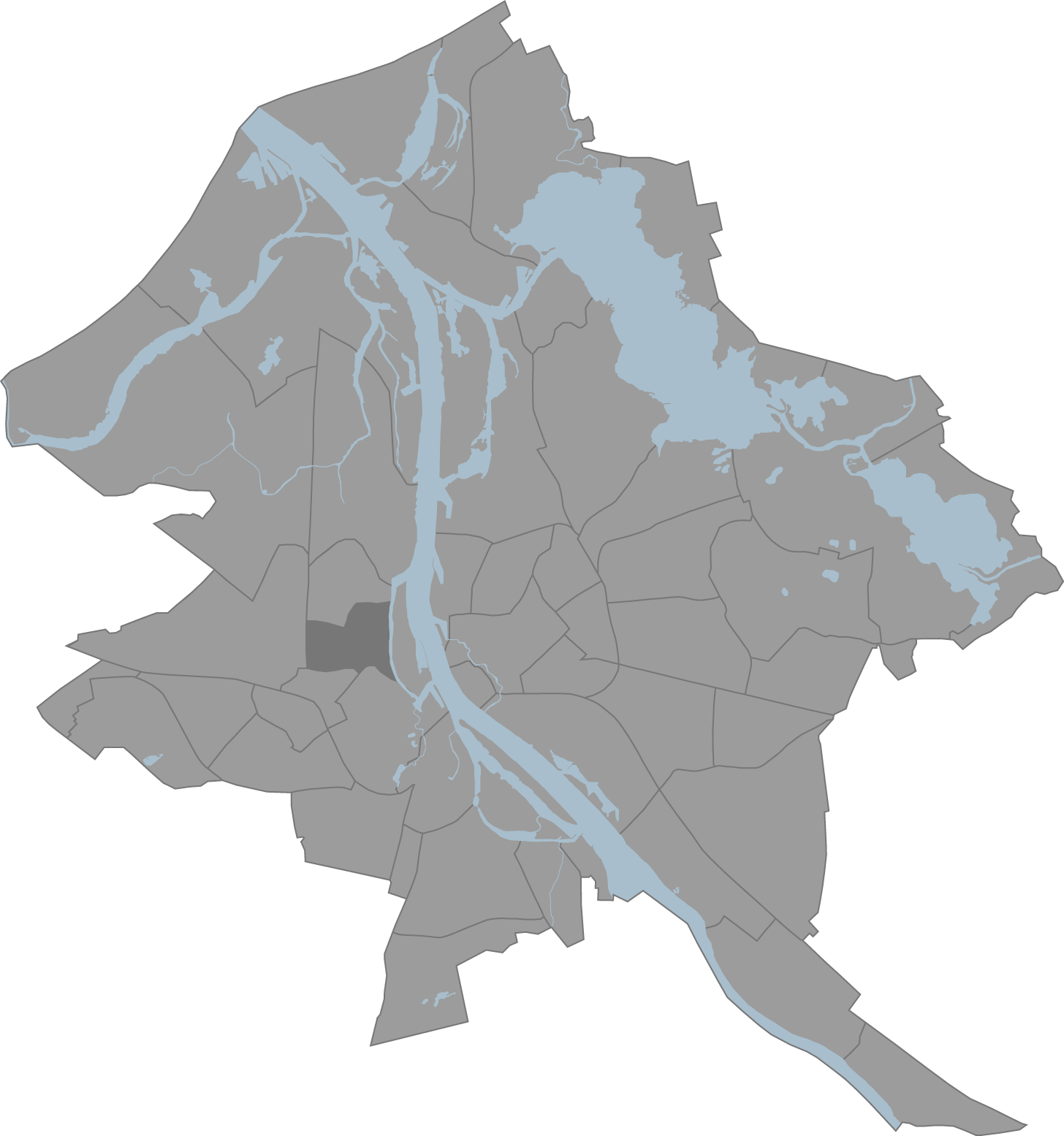 A map of Riga, Latvia with the eponymous commune highlighted